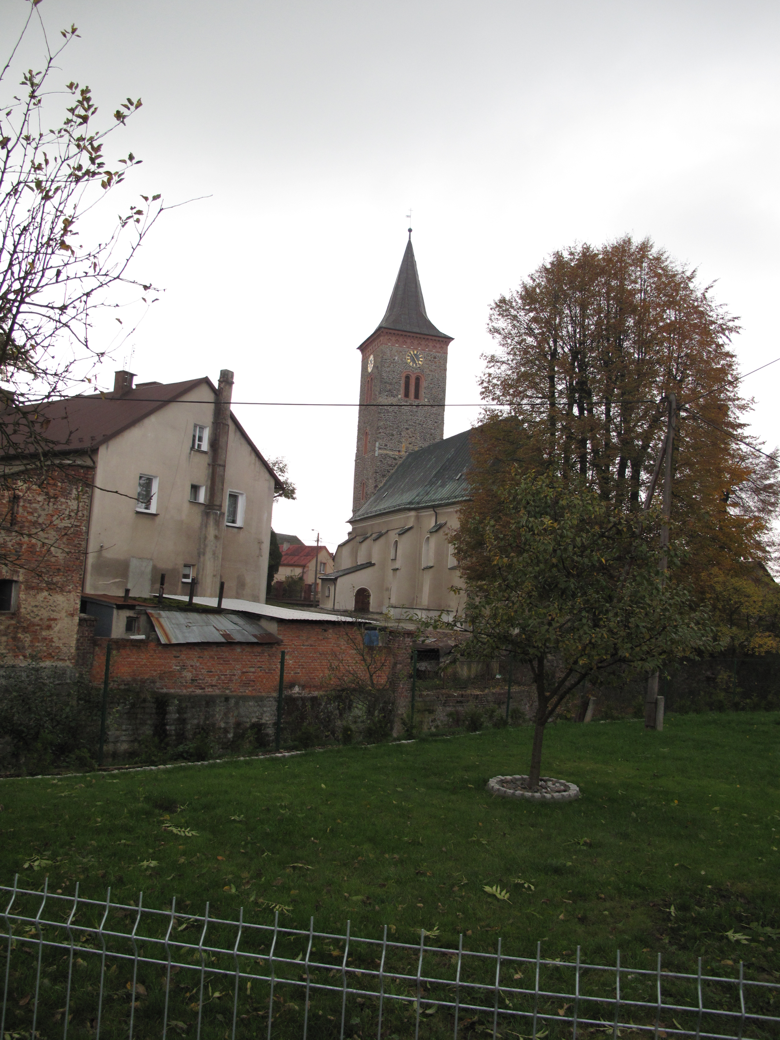 Lisięcice. Opole Voivodeship, Poland.